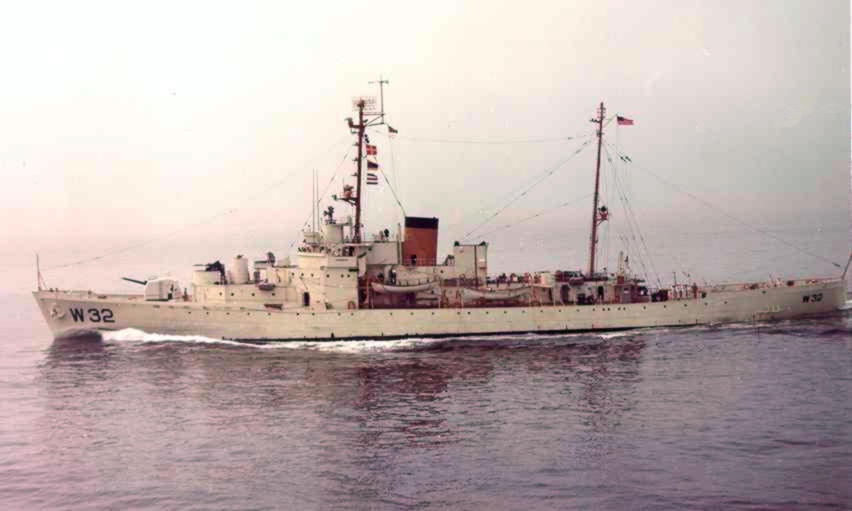 The U.S. Coast Guard cutter USCGC Campbell (WPG-32) underway off New York Harbor, in 1963. Note that she still carries her World War II SC radar on the masttop.